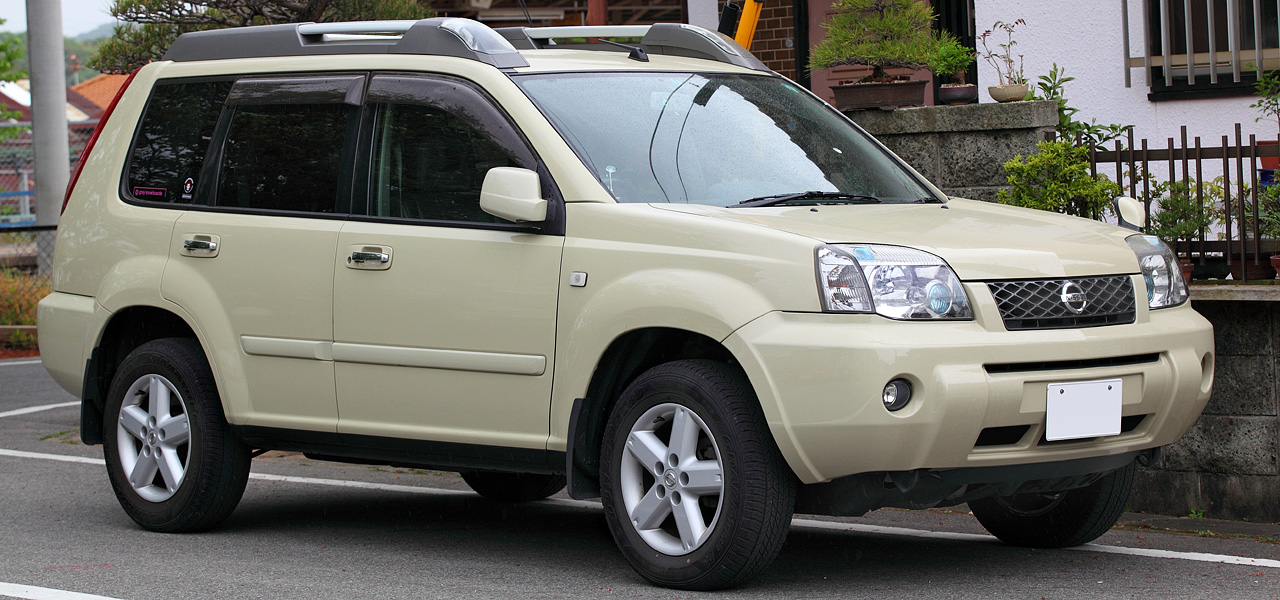 Nissan X-Trail ( T30 )